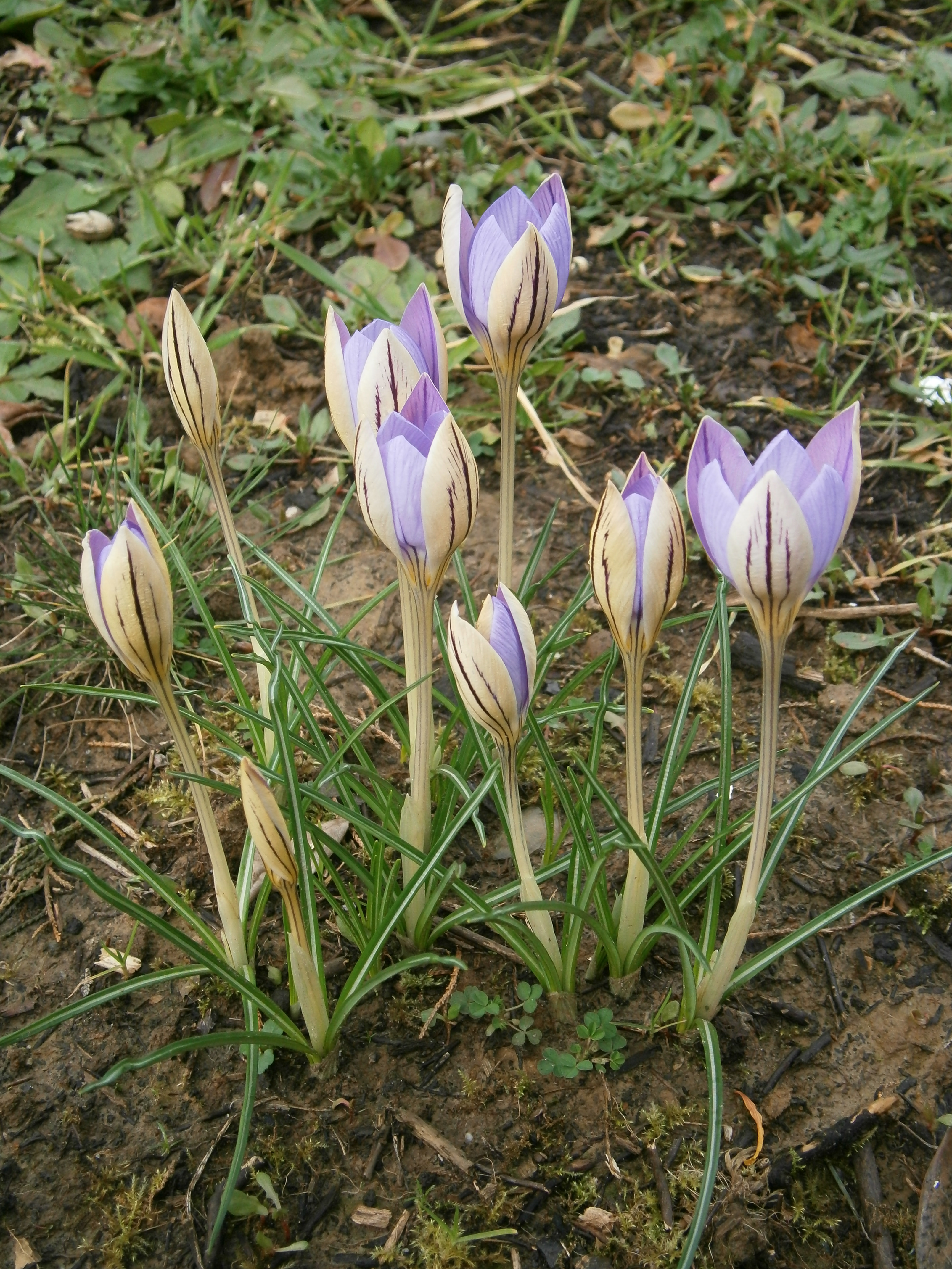 Crocus imperati 'De Jager' group